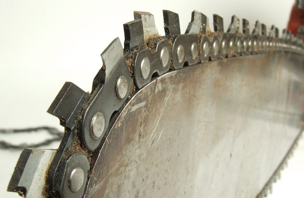 A section of "scratcher" chain on a chainsaw bar nose